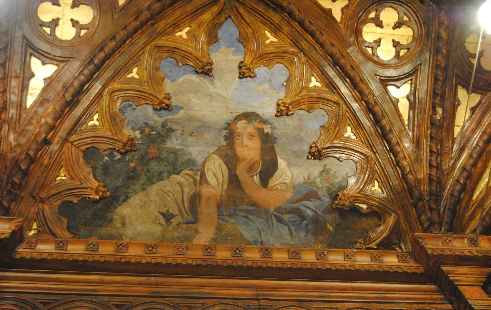 desio villa tittoni traversi